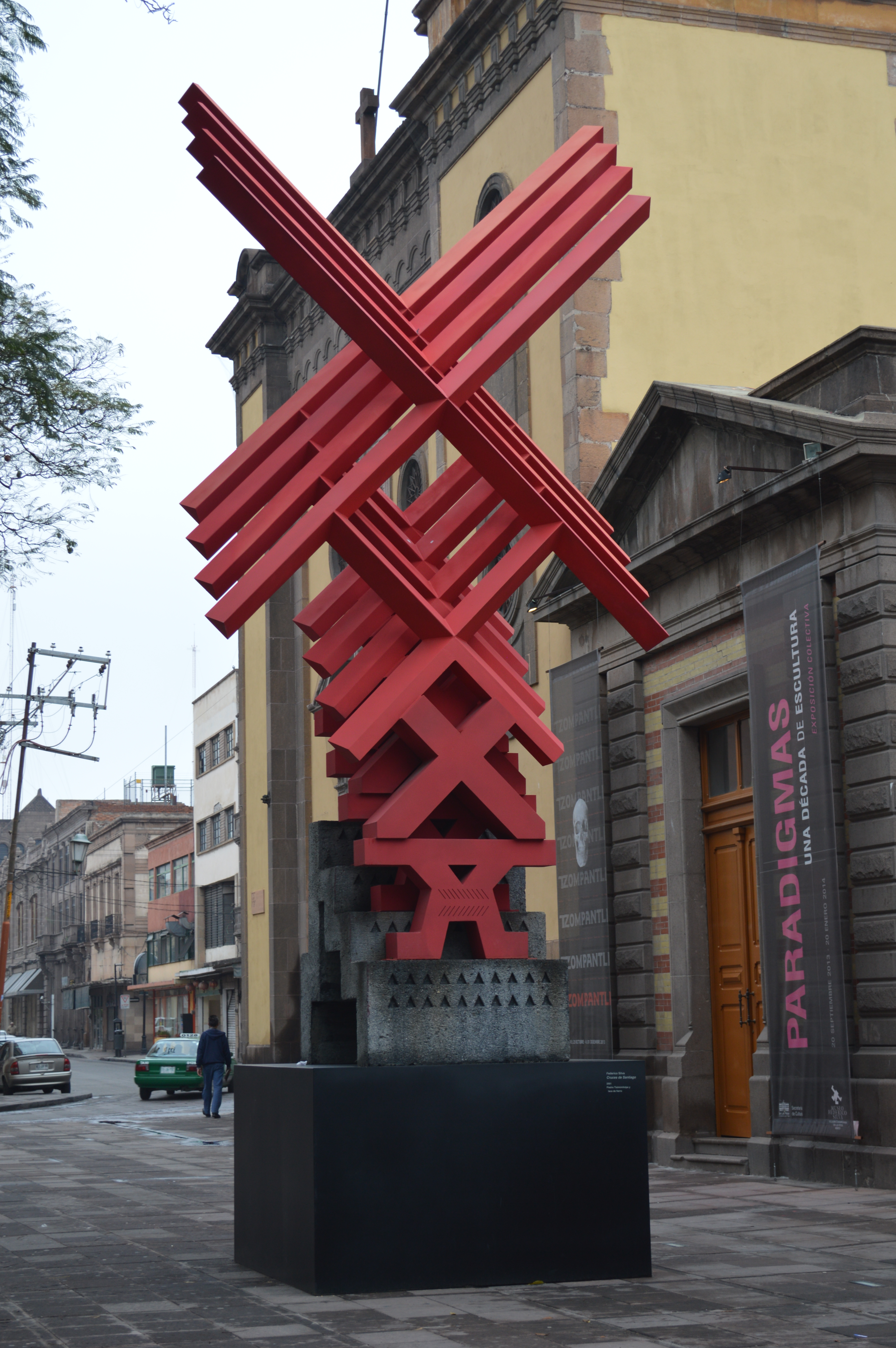 Cruces de Santiago by Federico Silva in front of the Federico Silva Museum in San Luis Potosi, Mexico